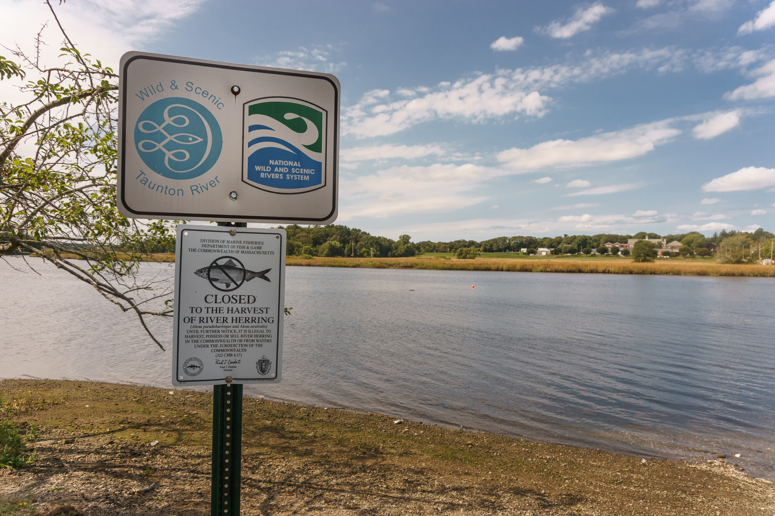 The Taunton River was designated a National Wild and Scenic River in 2009. Photo taken at the Berkley Bridge Village Heritage Park.